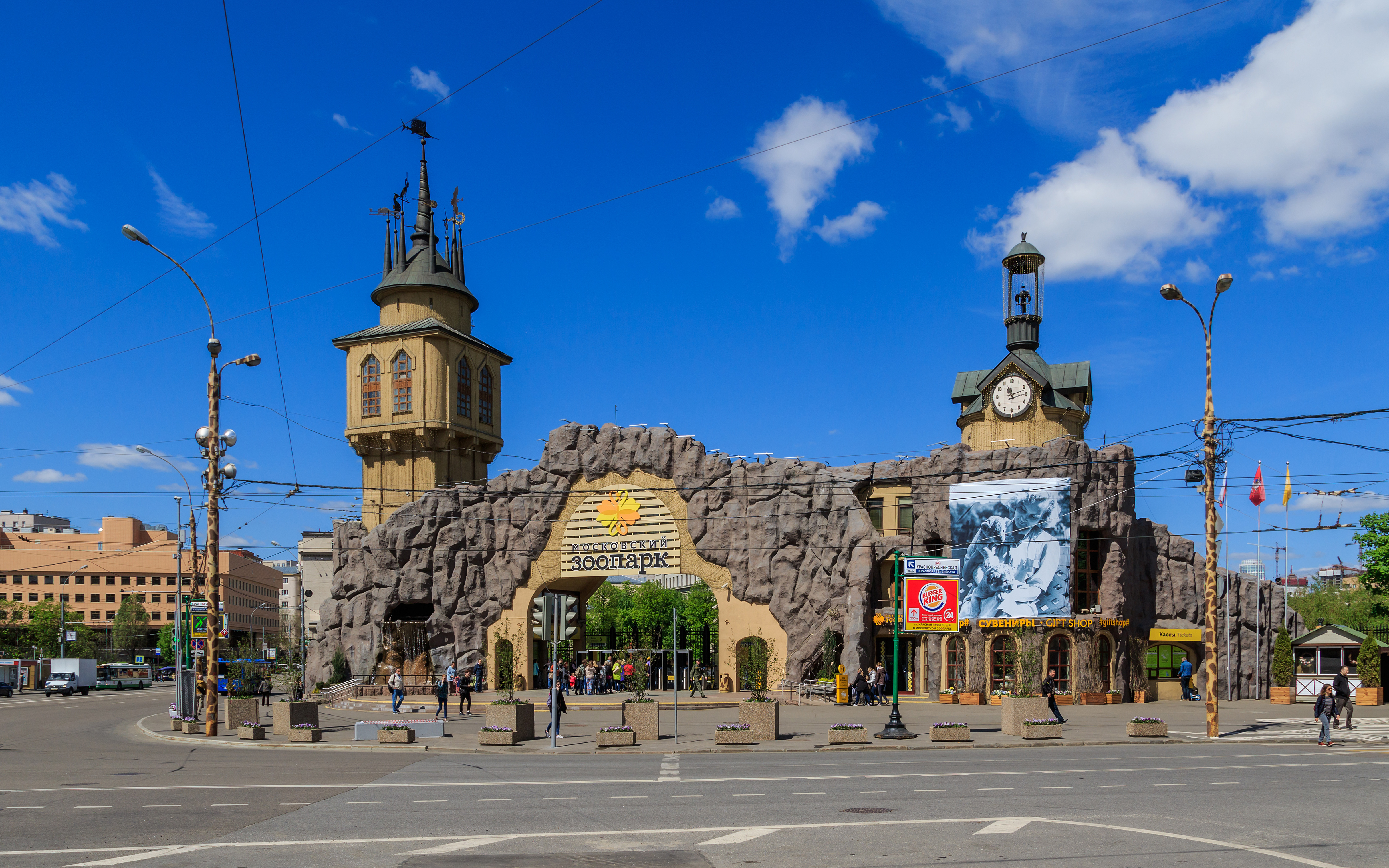 Main entrance building of the Zoo in Moscow (Russia).